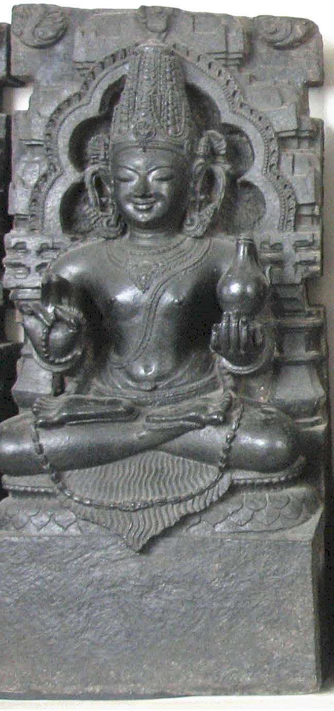 Shukra, Hindu god of Venus, British Museum